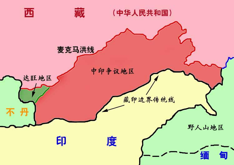 MacMahon Line中文（台灣）: 麥克馬洪線中文（中国大陆）: 麦克马洪线